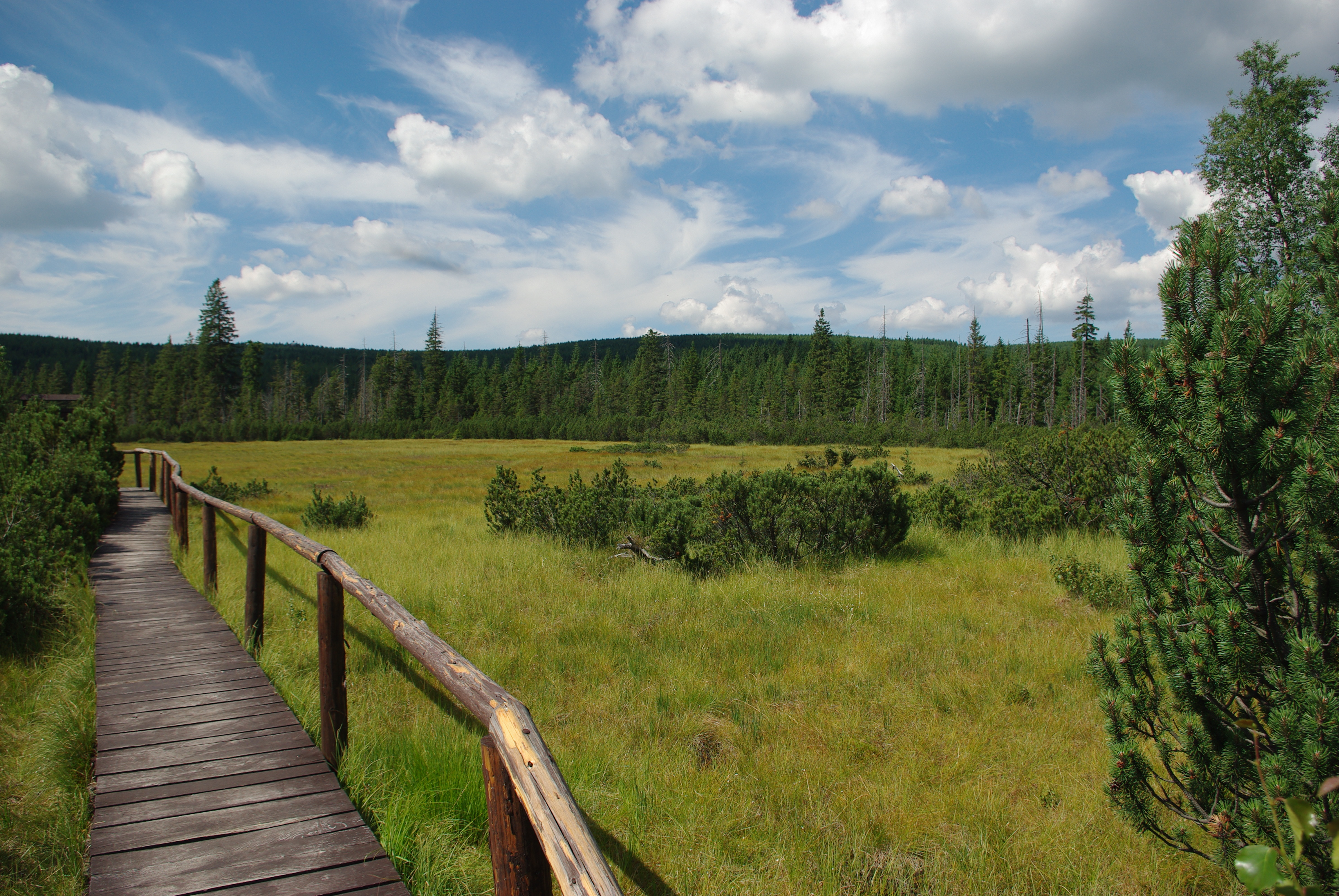 National nature reserve Rašeliniště Jizerky in Jablonec nad Nisou District, Czech Republic